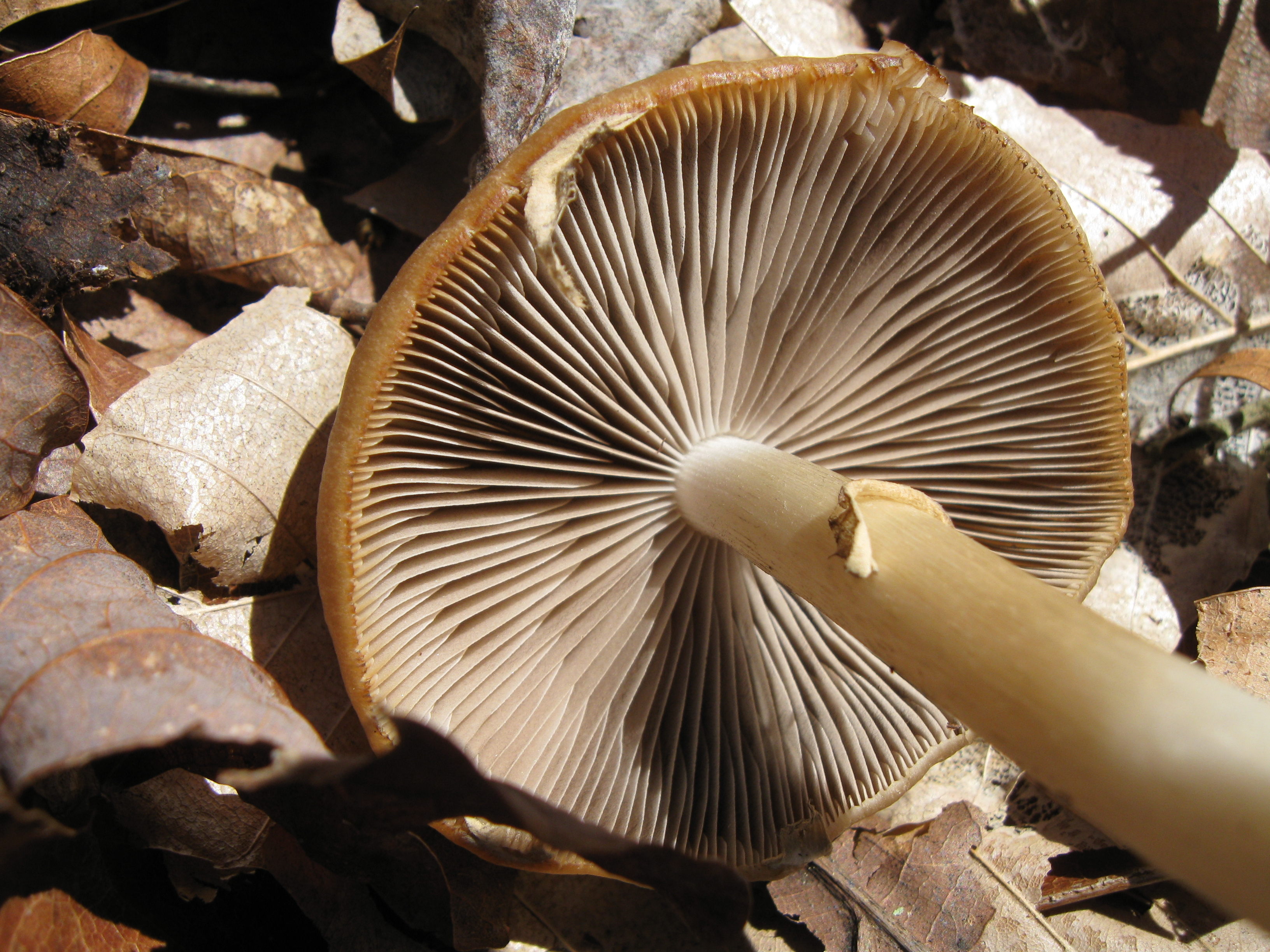 Psathyrella piluliformis from Short Springs State Natural Area, Coffee County, Tennessee, USA 4 cm hygrophanous cap faded to tan color as it dried. Very dark brown, almost black spore print. Growing on very rotten, buried hardwood in deciduous forest.